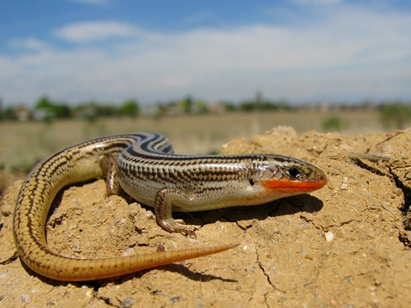 by Joe Farah